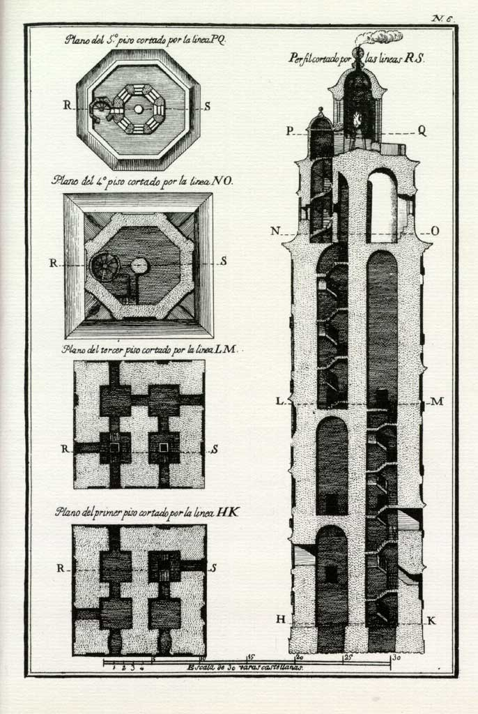 An illustration form the Don Joseph Cornide book "Investigaciones sobre la fundación y fábrica de la torre llamada de Hércules, situada a la entrada del puerto de La Coruña" with floor paln of the Tower of Hercules